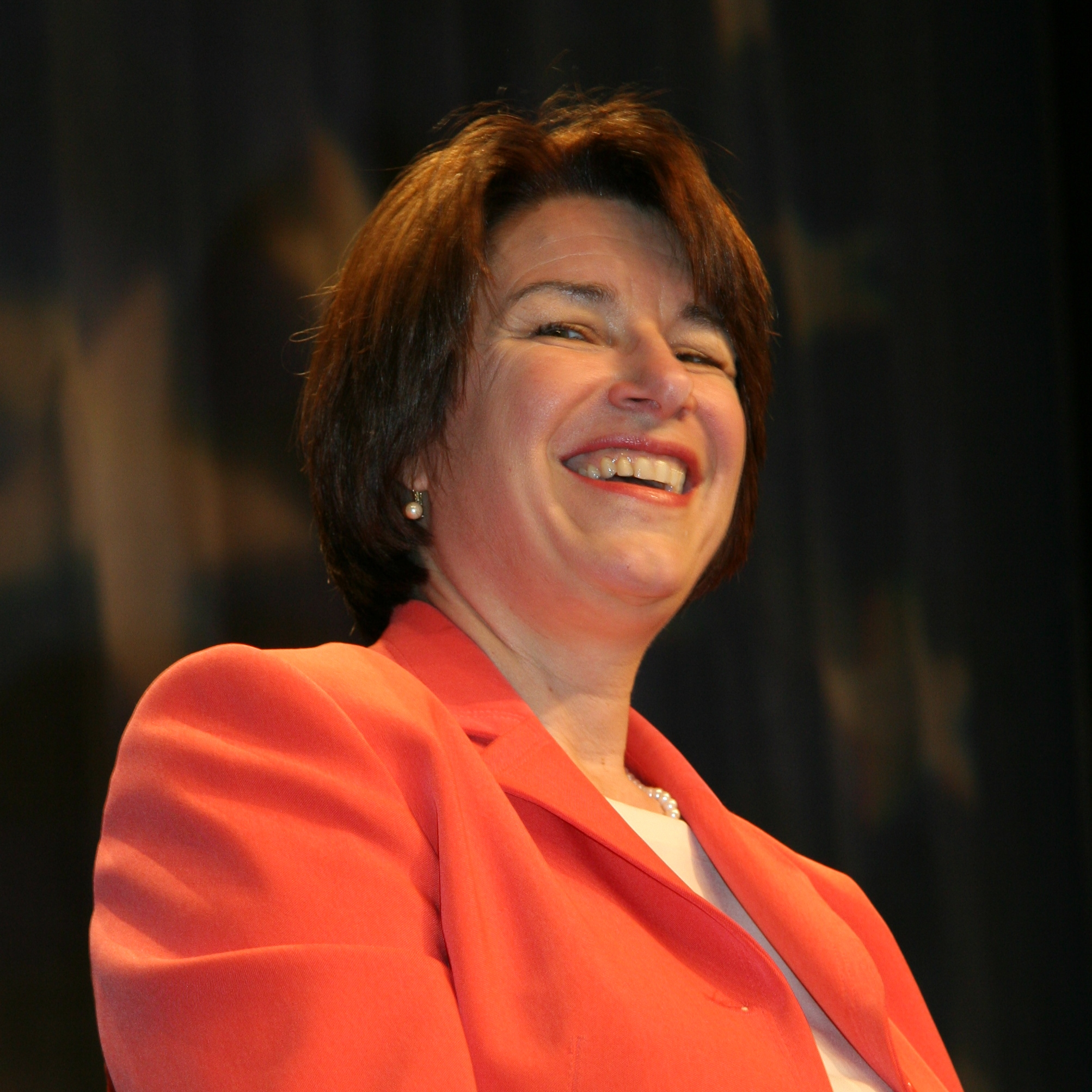 United States Senator Amy Klobuchar in Duluth, Minnesota